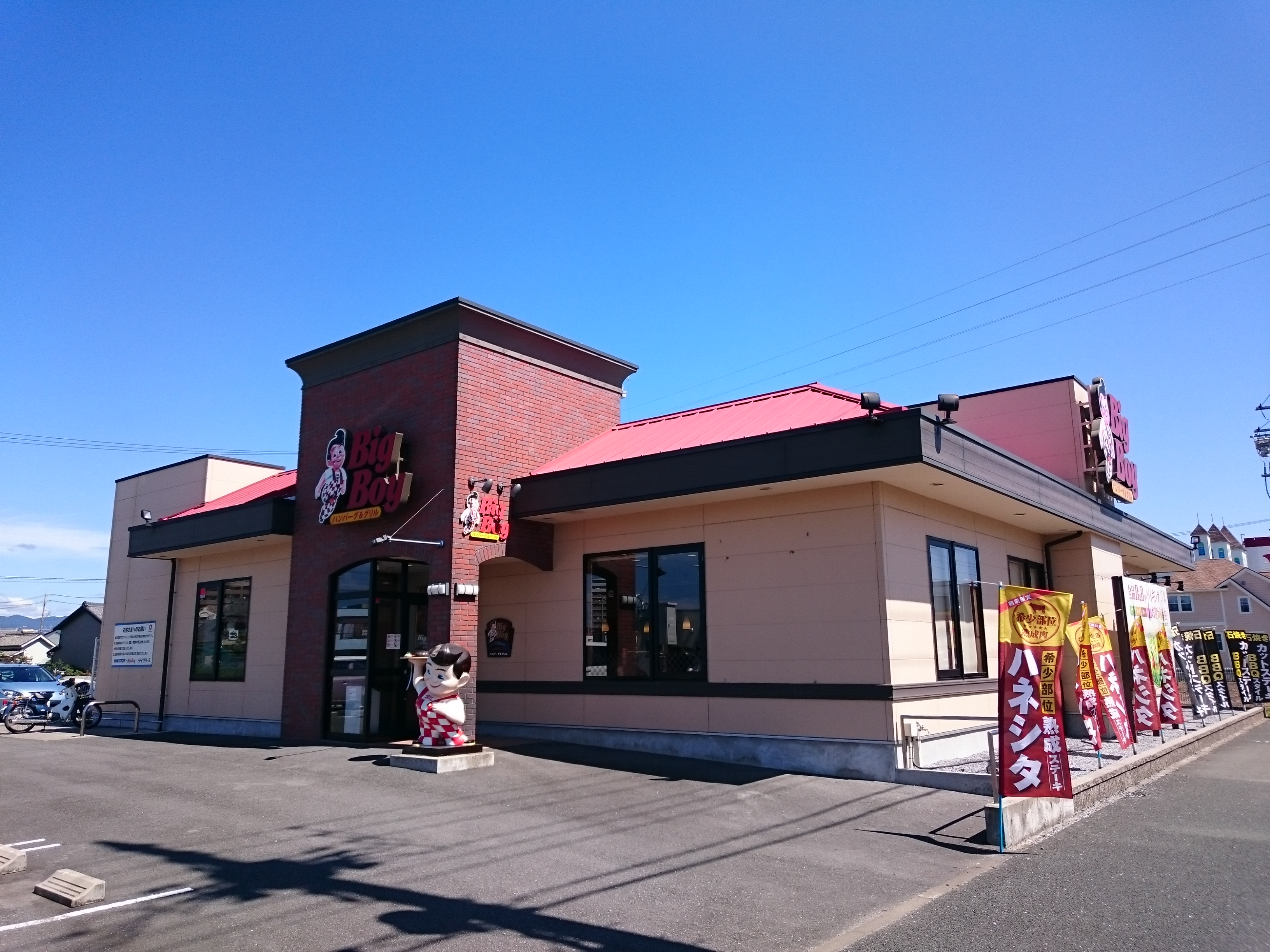 Big Boy Toyokawa (ビッグボーイ 豊川店), located at 27-1 Gomae Baba-cho, Toyokawa, Aichi, Japan